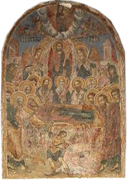 Assumption_of_Mary_Church_in_Samarina_Fresco